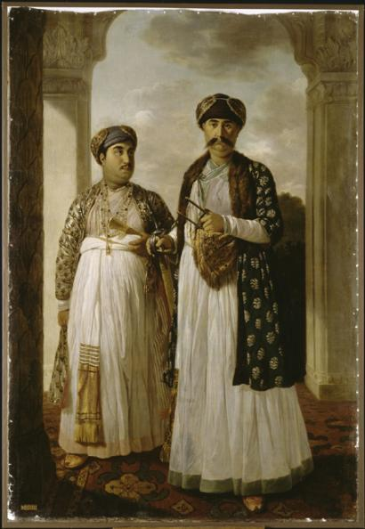 Tilly Kettle (England, 1735-1786) Nawab Shuja al-Daula and his heir apparent, Mirza Amani, future Asaf al-Daula. India, Uttar Pradesh, Faizabad, 1772 oil on canvas 235 x 165 cm Musée national des Châteaux de Versailles et de Trianon, MV 3888, INV 10053, LP 6412 © Musée National des Châteaux de Versailles et de Trianon/ Réunion des Musées Nationaux, Paris/ Art Resource, NY